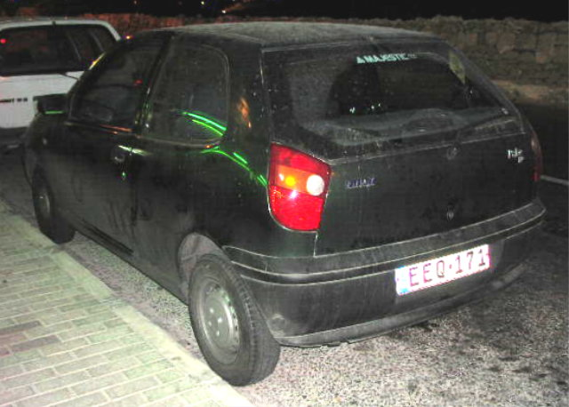 Fiat Palio Hatchback